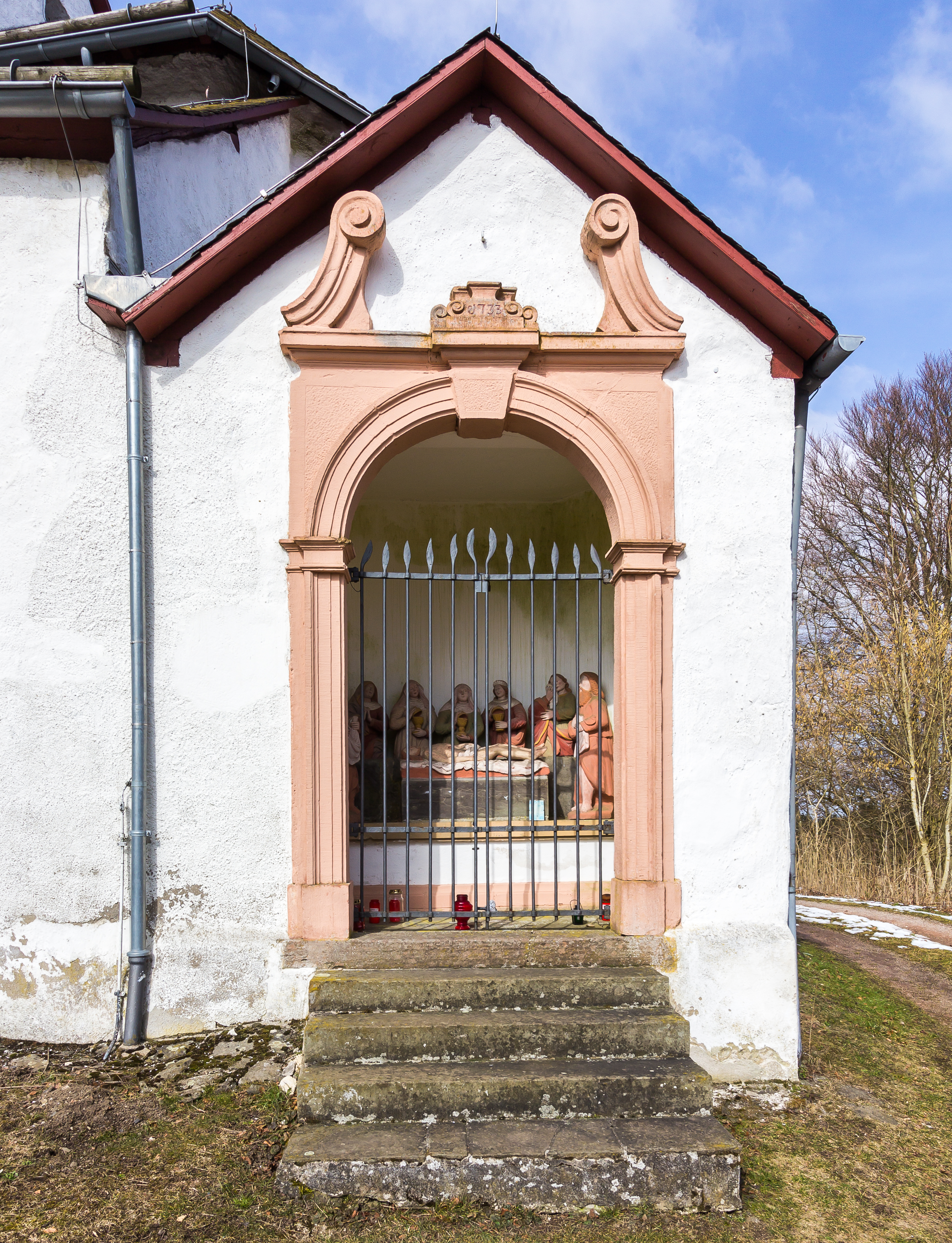 This is a photograph of an architectural monument.